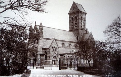 St Margaret's Church, Anfield, Liverpool in 1910. The church was built in 1873 and destroyed by fire in 1961.